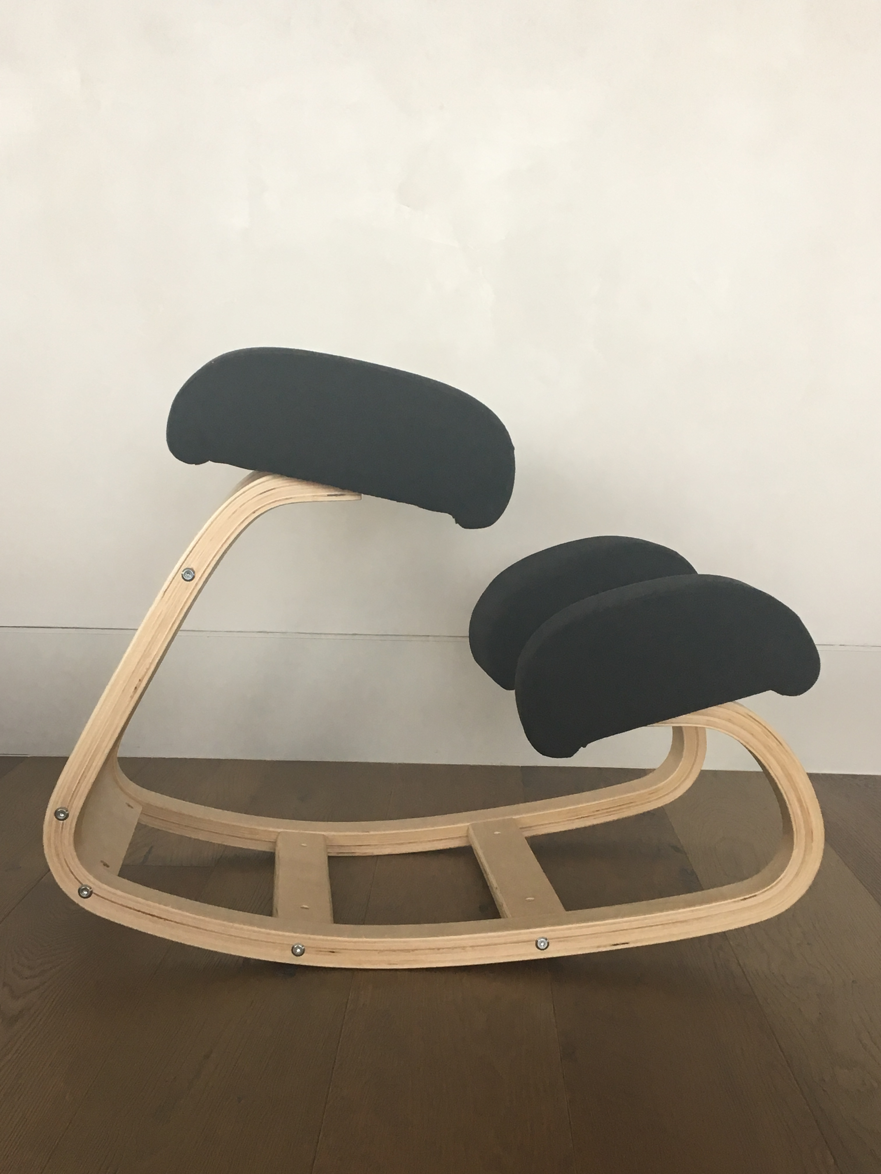 The Sleekform Austin Ergonomic Kneeling Chair